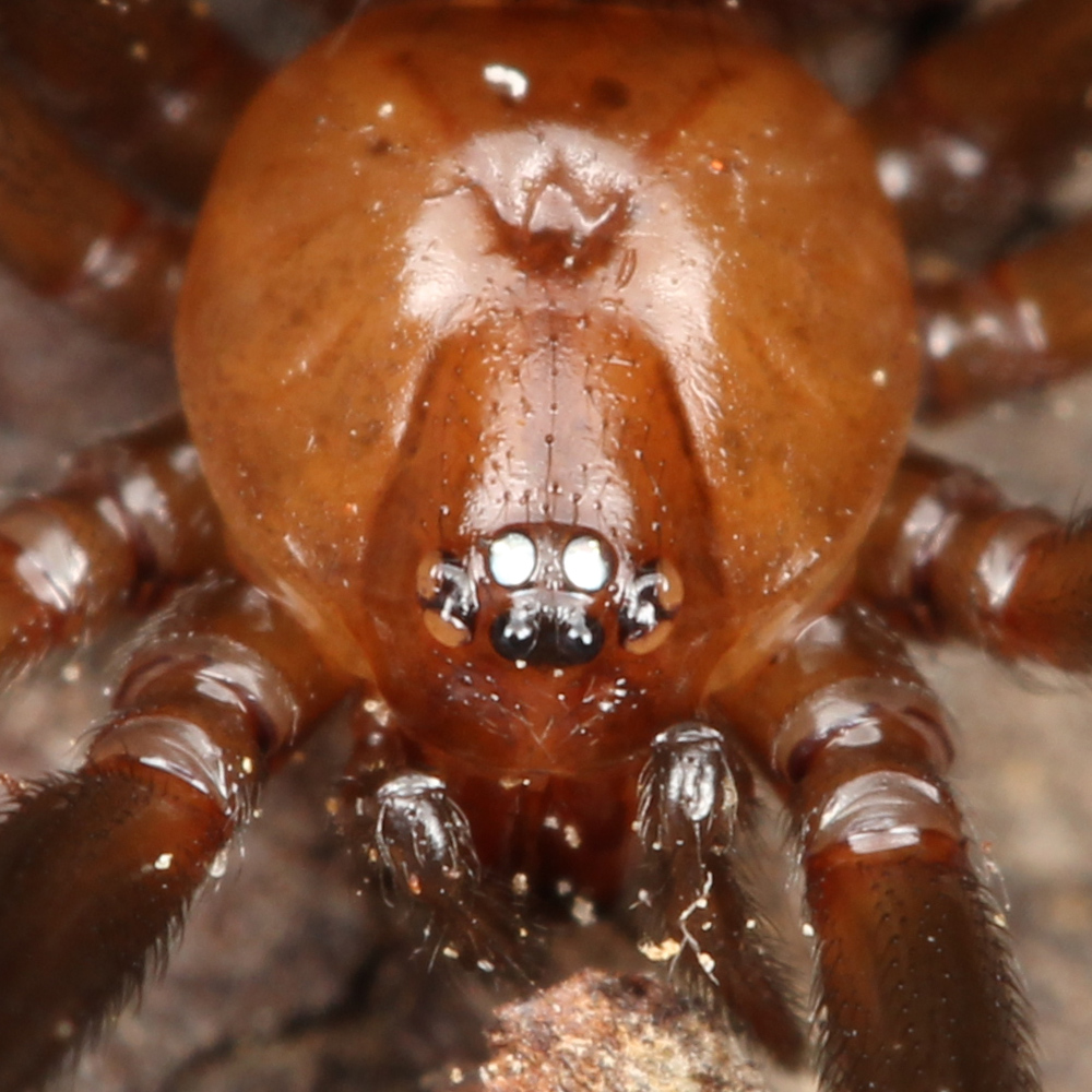 Carapace of adult female false black widow (Steatoda grossa) found at Mare Island, California